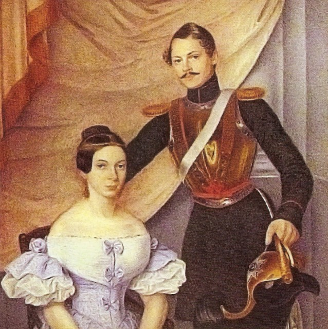 Benkendorf, Konstantin Konstantinovich.